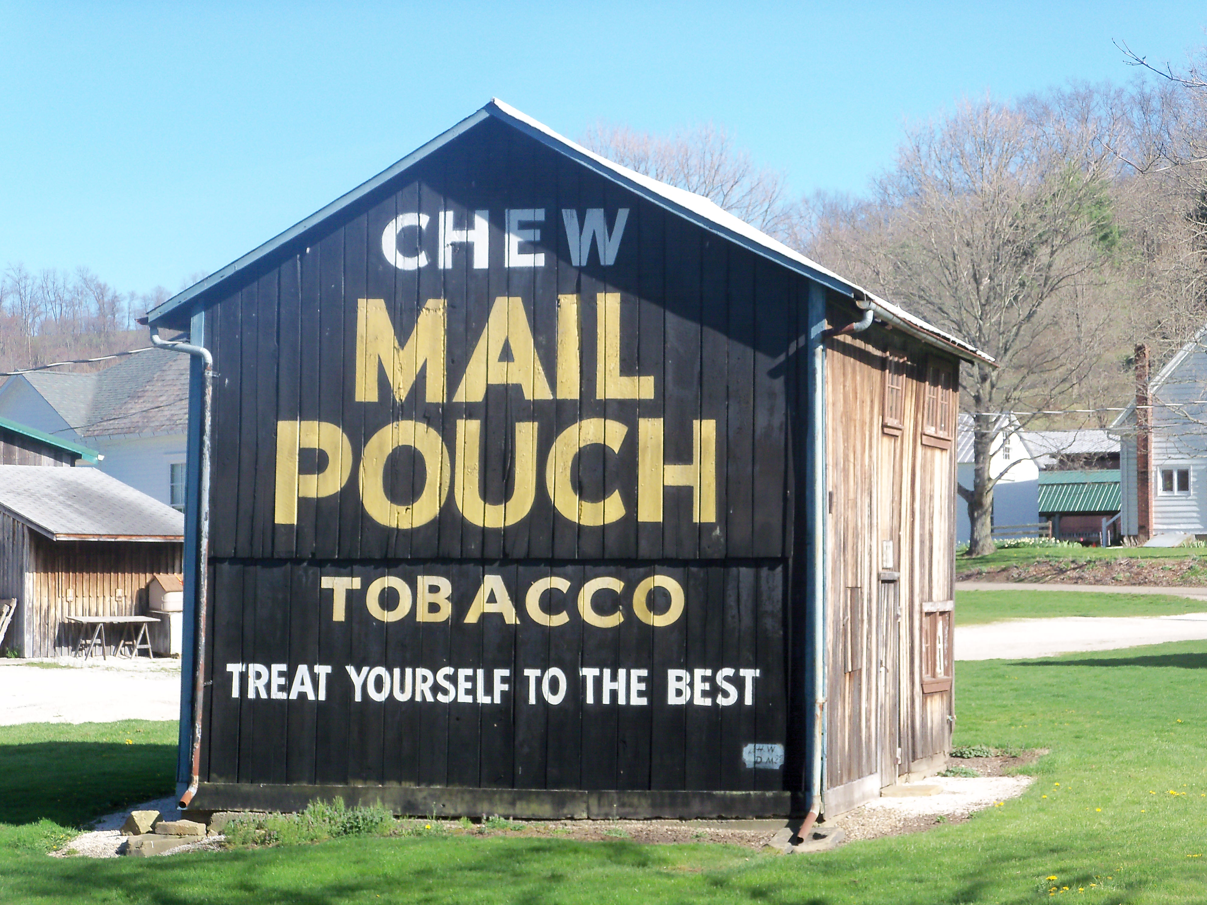 Barn at the Algonquin Mill complex in Petersburg, Carroll County, Ohio.